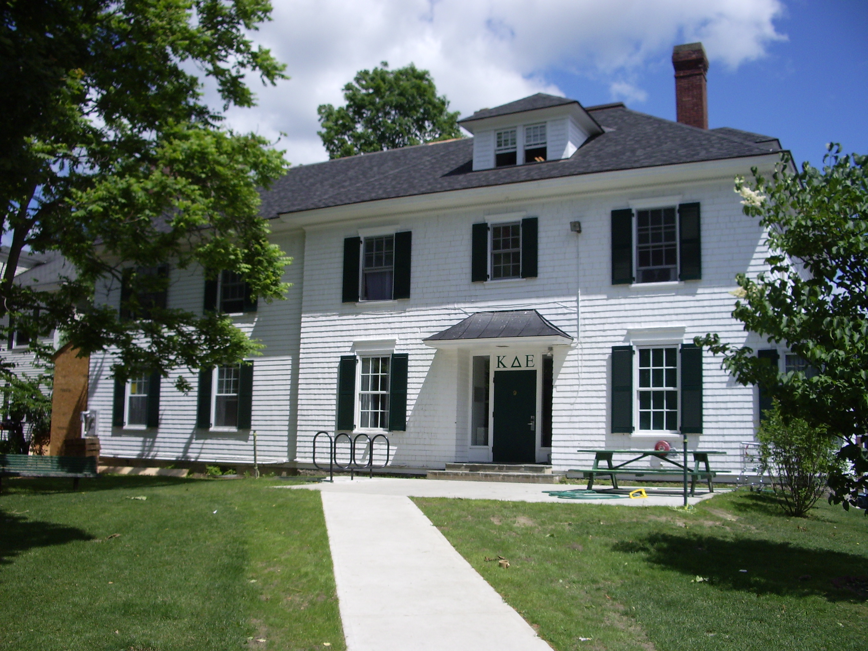 Photograph of Kappa Delta Epsilon at the campus of Dartmouth College in Hanover, New Hampshire.